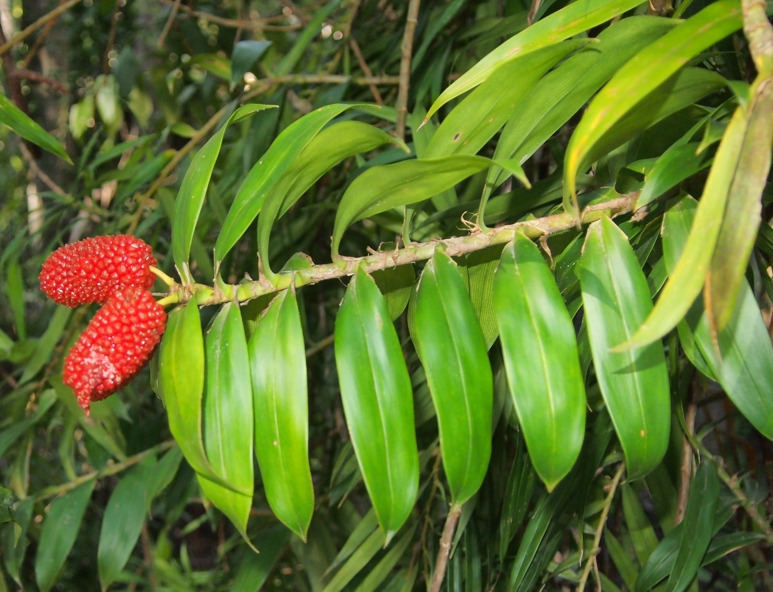 Freycinetia excelsa fruit anf foliage